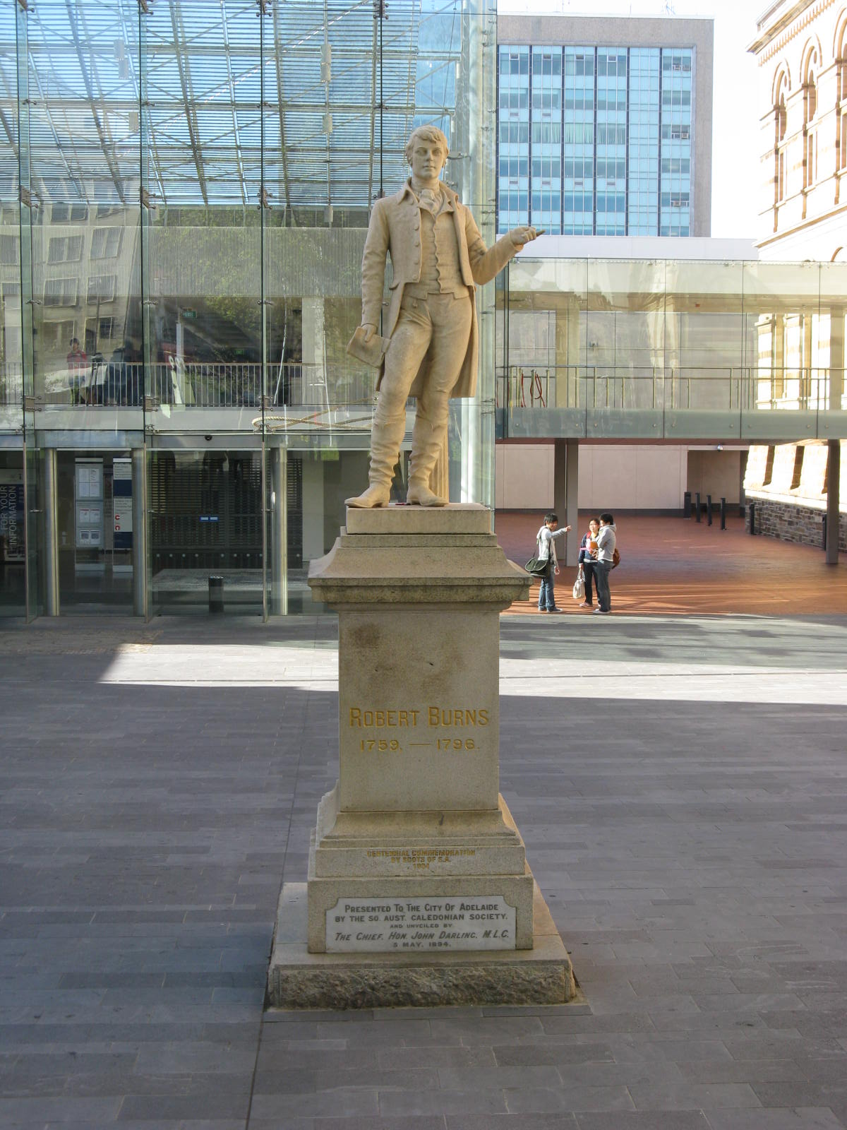 Statue of Robert Burns by W. J. Maxwell (1894) in front of State Library on Jubilee 150 Walkway, Adelaide. The statue is the first carved in Adelaide. [1]